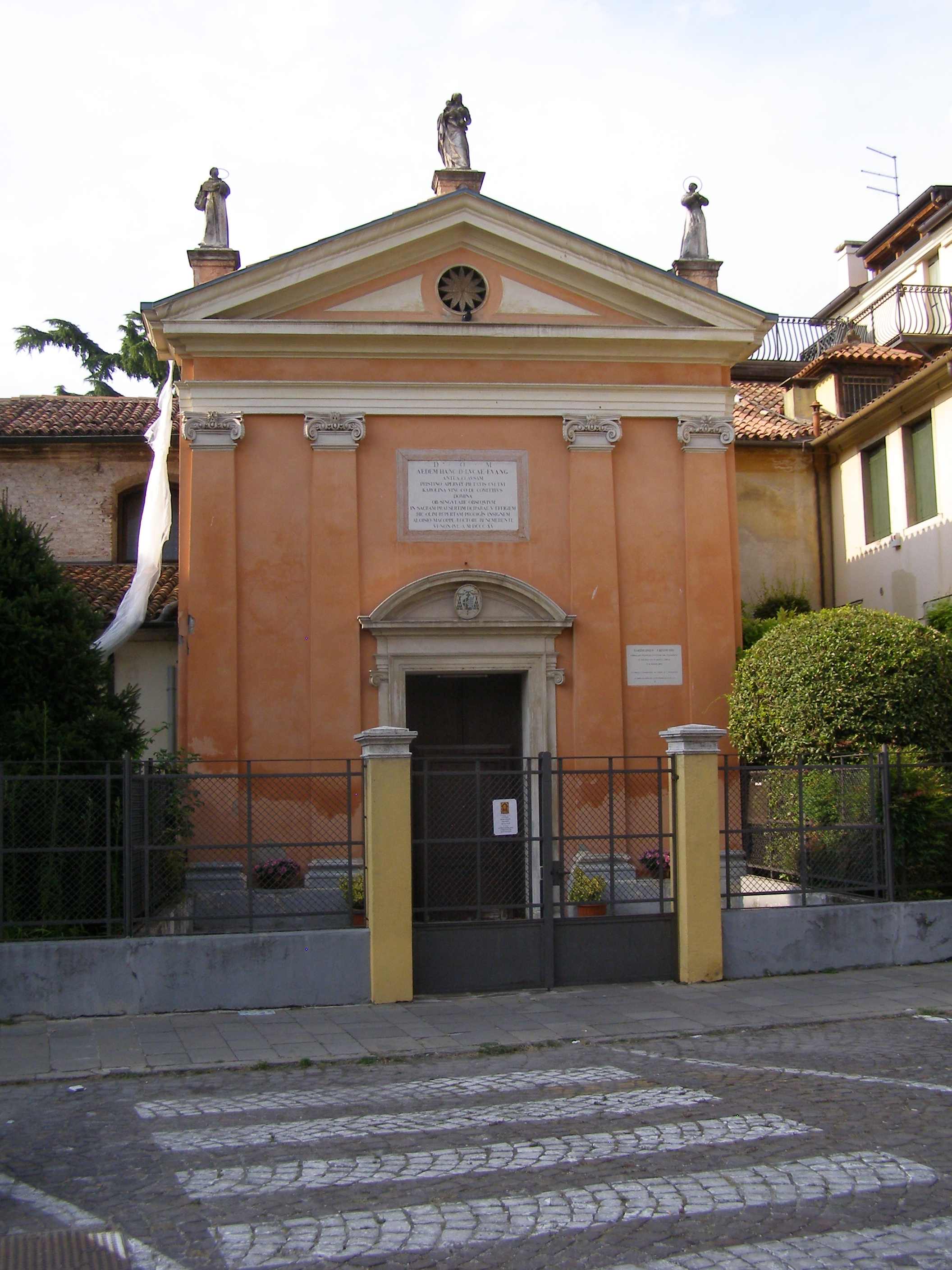 Padua - St. Luke the Evangelist church